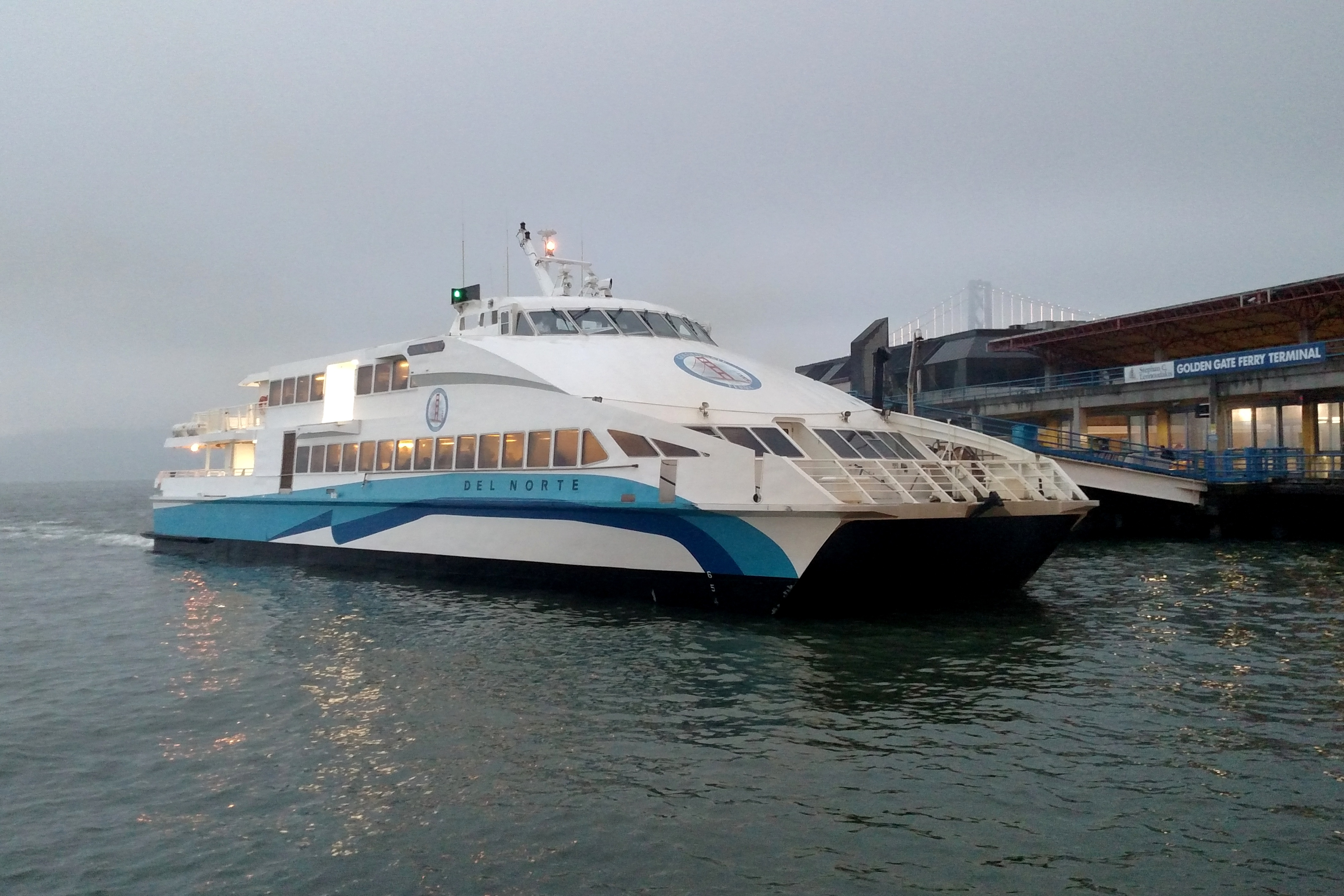 MV Del Norte arriving at the Golden Gate Ferry Terminal in November 2018